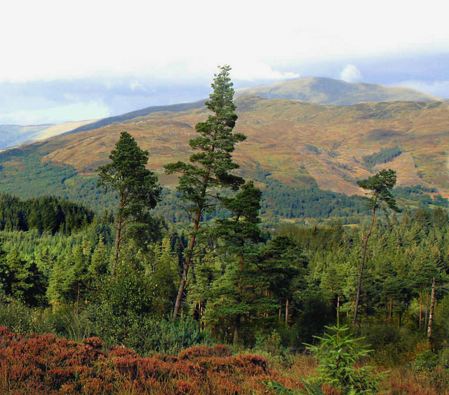 Dukes Pass, The Trossachs. Scottish woodland with Ben Ledi in the background.